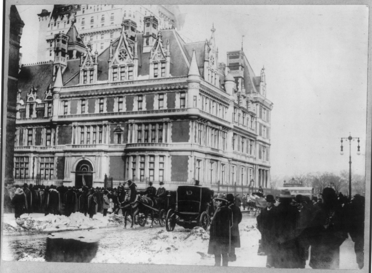 Title: Houses and mansions - Vanderbilt Mansion. Wedding day of Gladys Vanderbilt and Count Laszlo Szechenyi, Jan. 28, 1908 Abstract/medium: 1 photographic print.